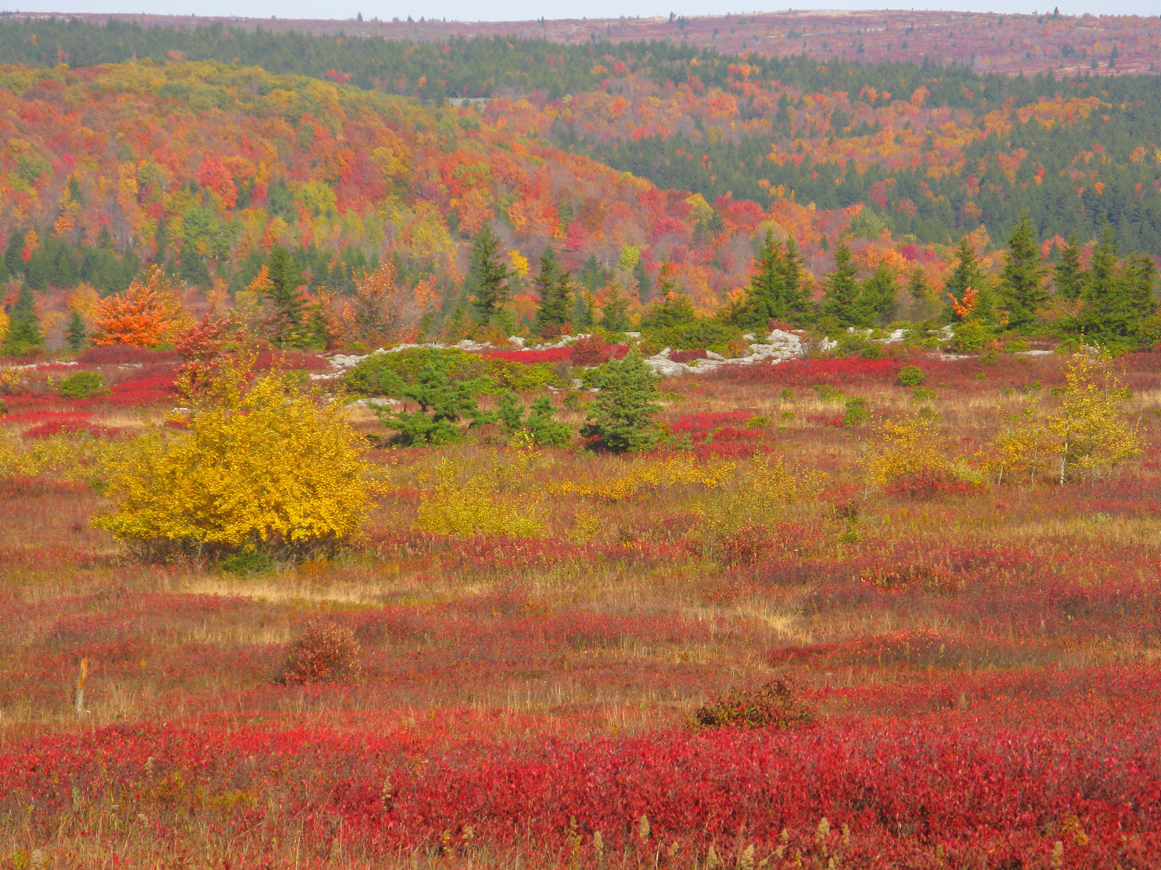 Autumn Colors Dolly Sods